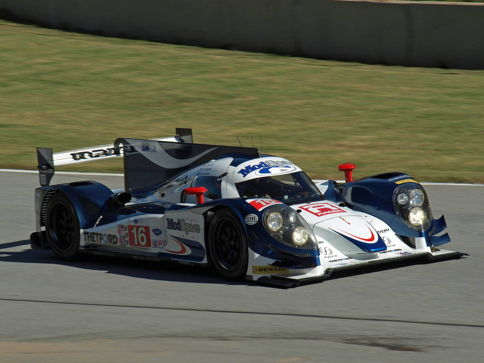 Guy Smith in the Dyson Racing Lola B12/60-Mazda during qualifying for the 2012 Petit Le Mans